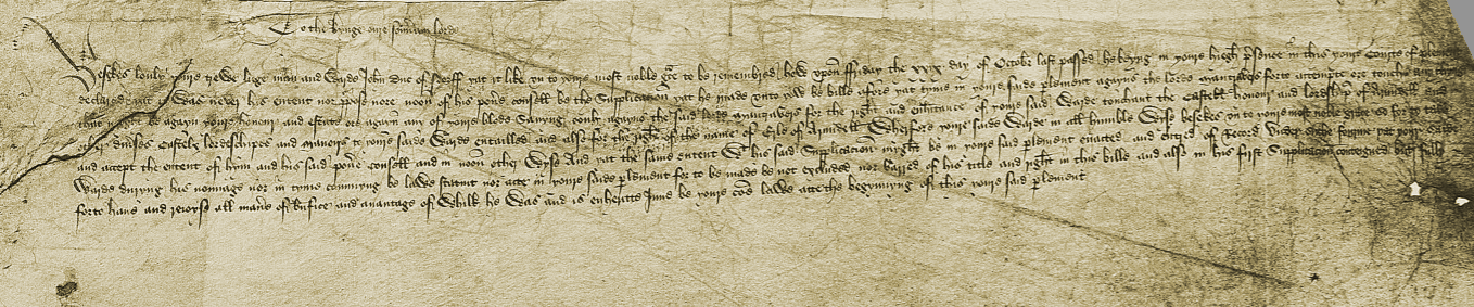 Petition concerning the dispute between Norfolk and Mautravers over the lordship of Arundel and the right to the title of earl of Arundel. (Recoloured File:SC 8-130-6454 Petition of John Mowbray 1433)